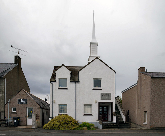 A meetinghouse of The Church of Jesus Christ of Latter-day Saints. Built in 1999, this building is situated in Newton Street and has a fine view looking over the outer harbour and goat Island. Next door is Isles FM, a volunteer-run community radio station for Scotland's Western Isles, which first broadcast in 1998.